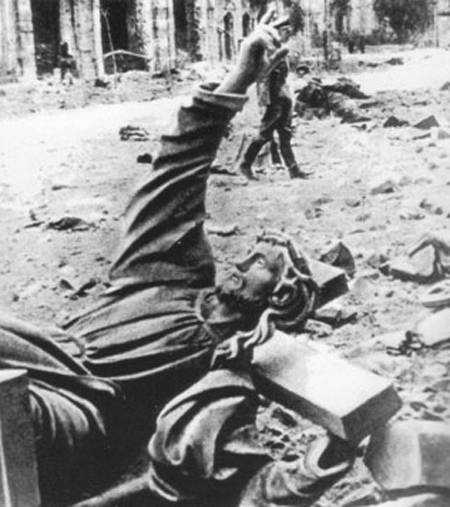 Warsaw Uprising: Christ of Holy Cross Church